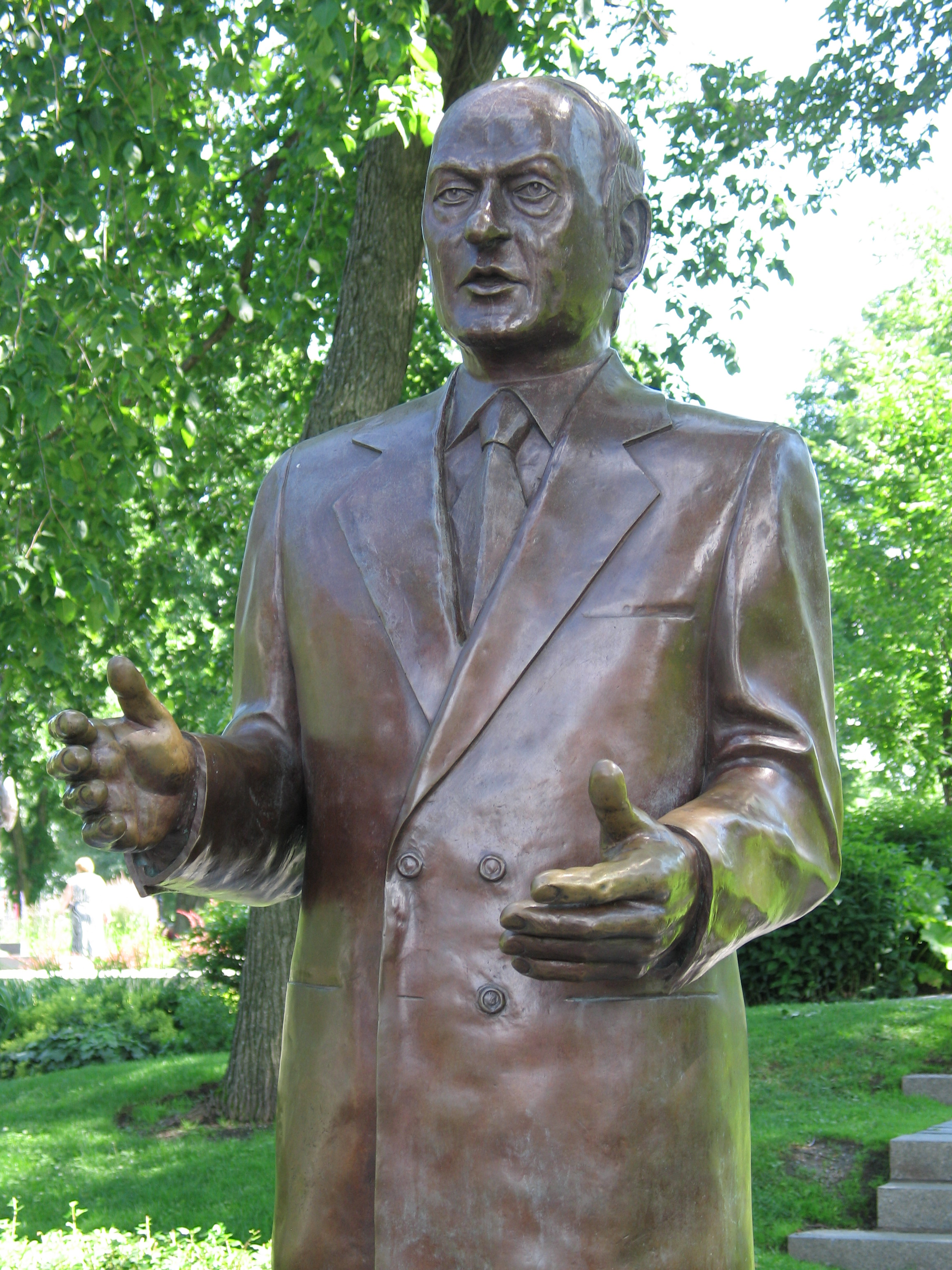 Statue of René Lévesque (1922-1987) in front of the National Assembly in Quebec City.